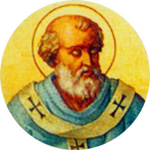 Portait of Pope Sergius I in the Basilica of Saint Paul Outside the Walls, Rome